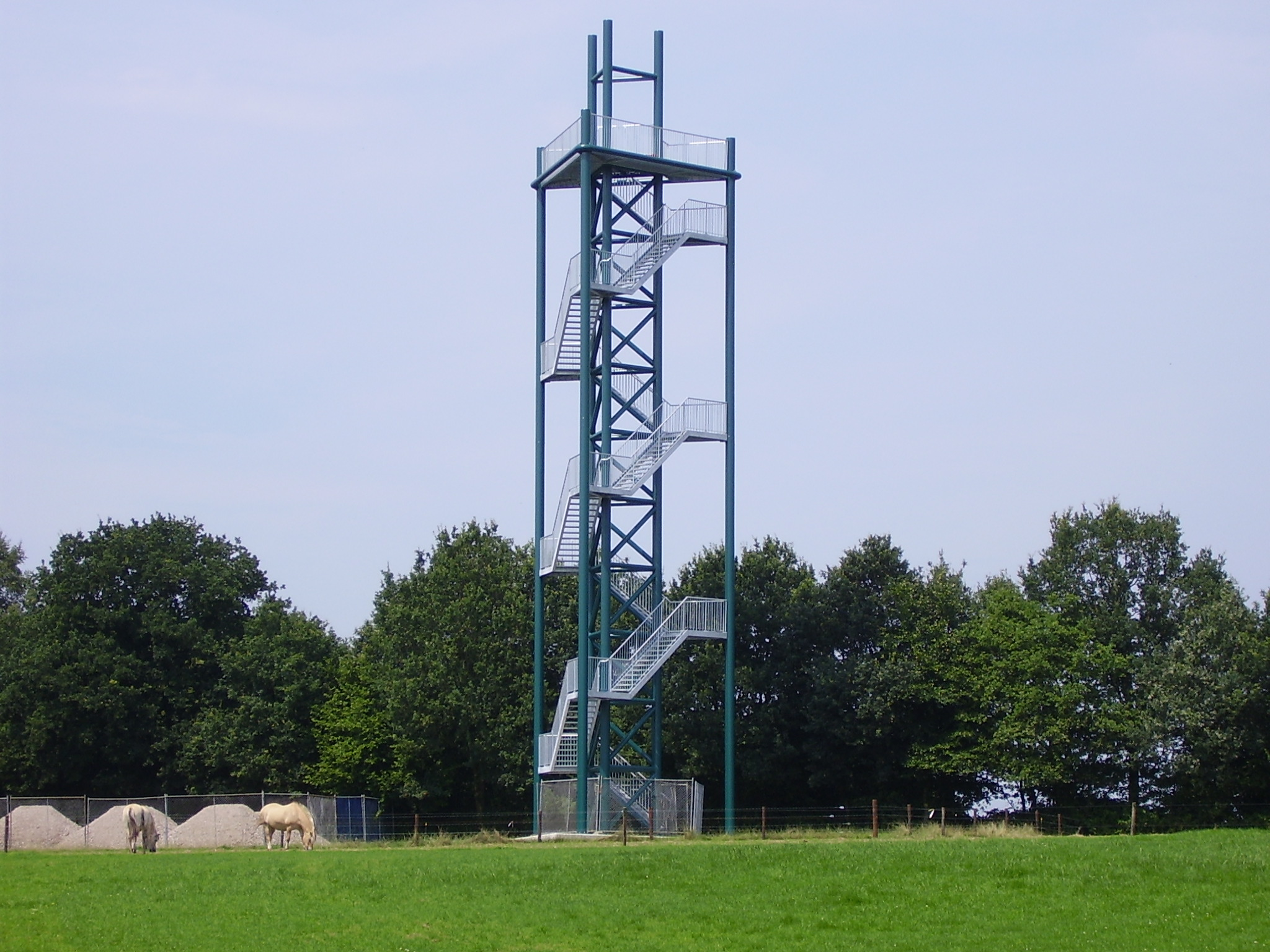 Watchttower on the Woldberg near Steenwijk (NL)